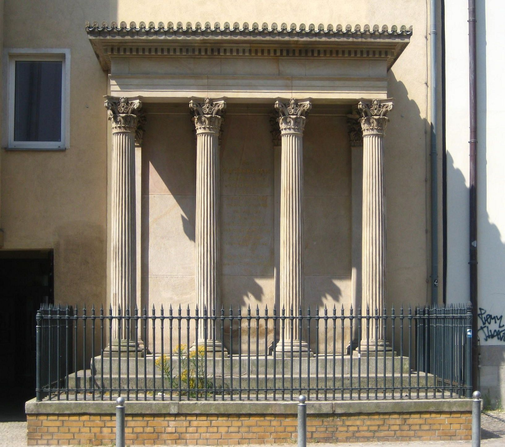 Memorial for Christian Koppe in front of the house Koppenplatz No. 13 in Berlin-Mitte. The memorial for the Berlin councilman Koppe (who donated a almshouse and a paupers cemetery near this site in the early 18th century) was created in 1855 to a design by Friedrich August Stüler. It has been designated as a historic landmark.